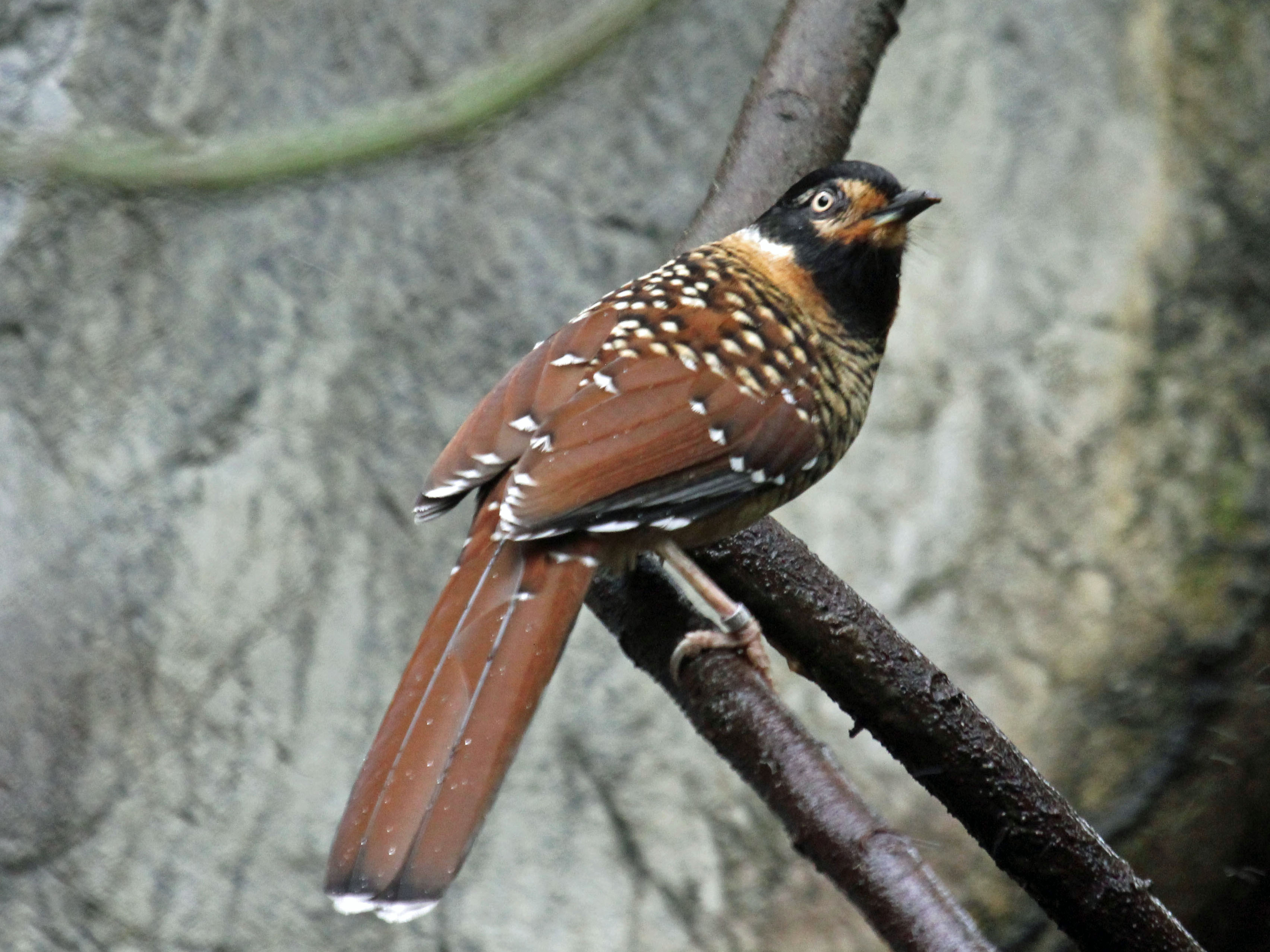 Spotted Laughingthrush (Garrulax occellatus) San Diego Zoo